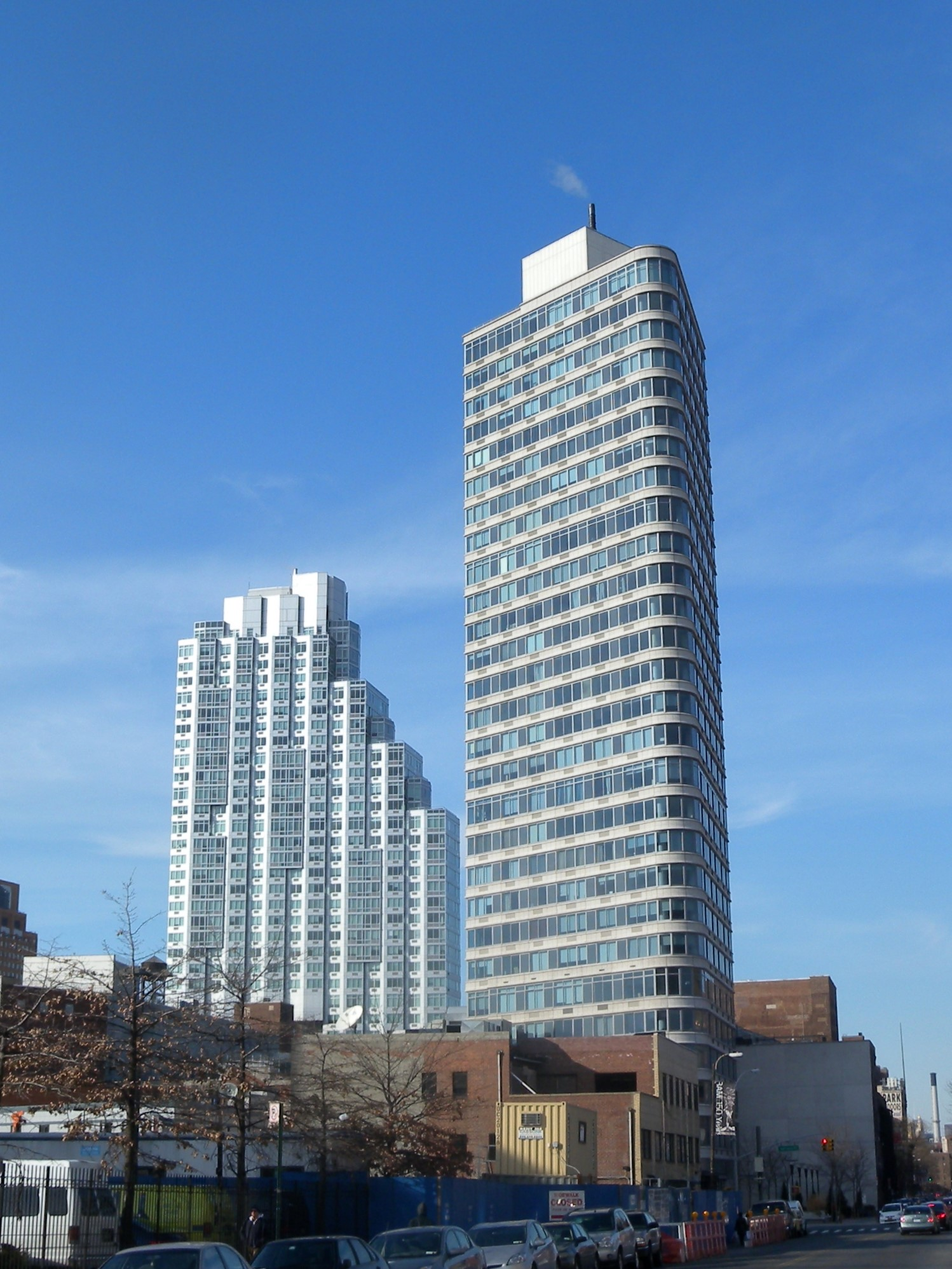 Looking north from Lafayette Avenue down Ashland Place at 230 Ashland Place (659 Fulton Street) and the more more distant 80 Dekalb Avenue on a sunny afternoon.